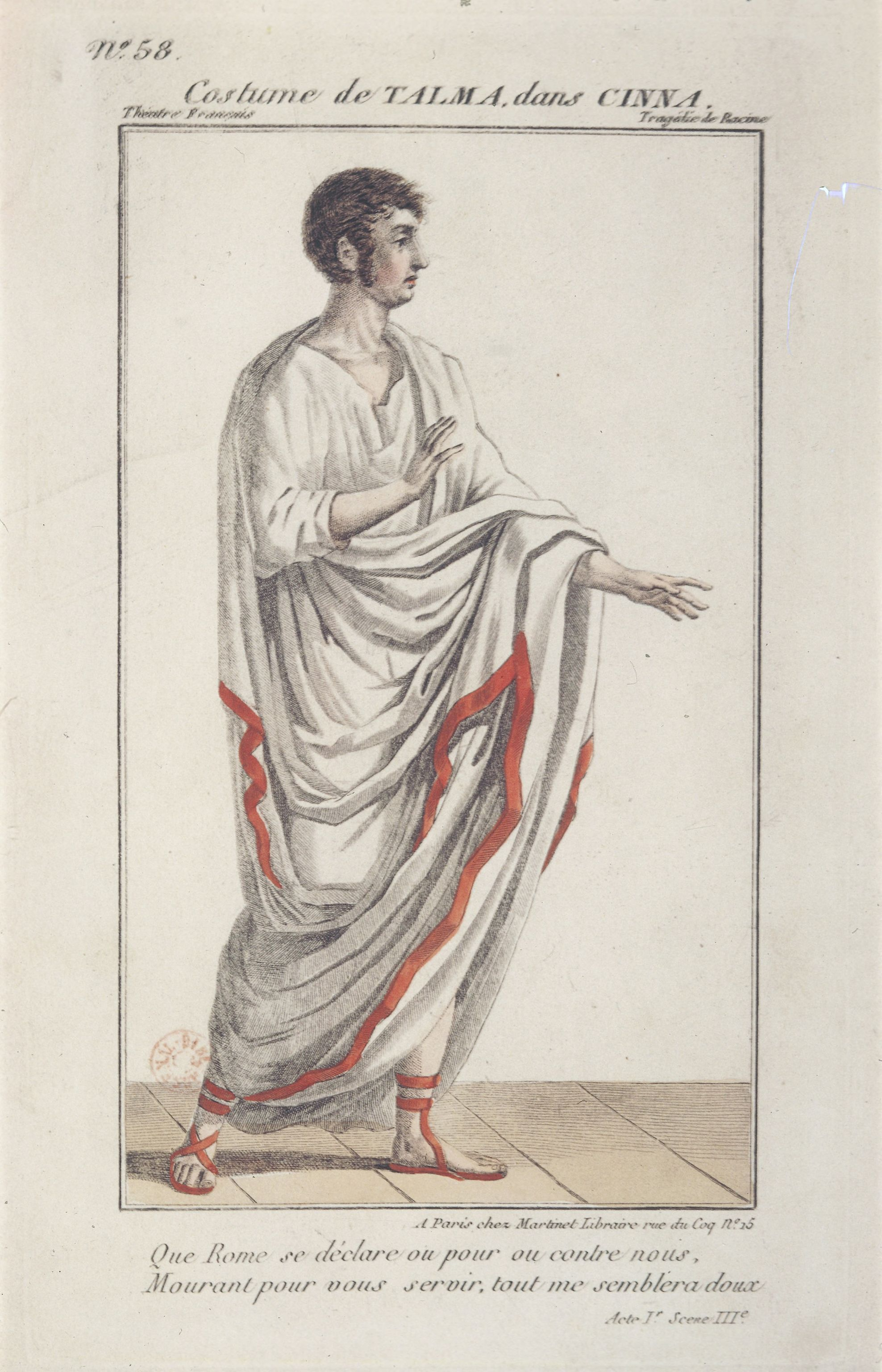 French actor Talma, playing Cinna in Racine's tragedy (18th century).